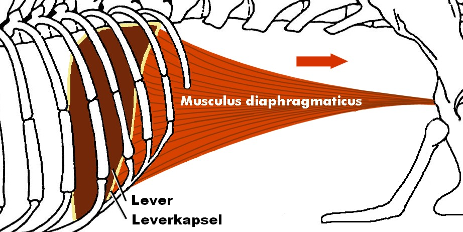 diaphragmic muscle in crocodiles (hepatic piston) Leber=liver; Leberkapsel=liver capsule own work --Uwe Gille 21:48, 16 March 2006 (UTC)